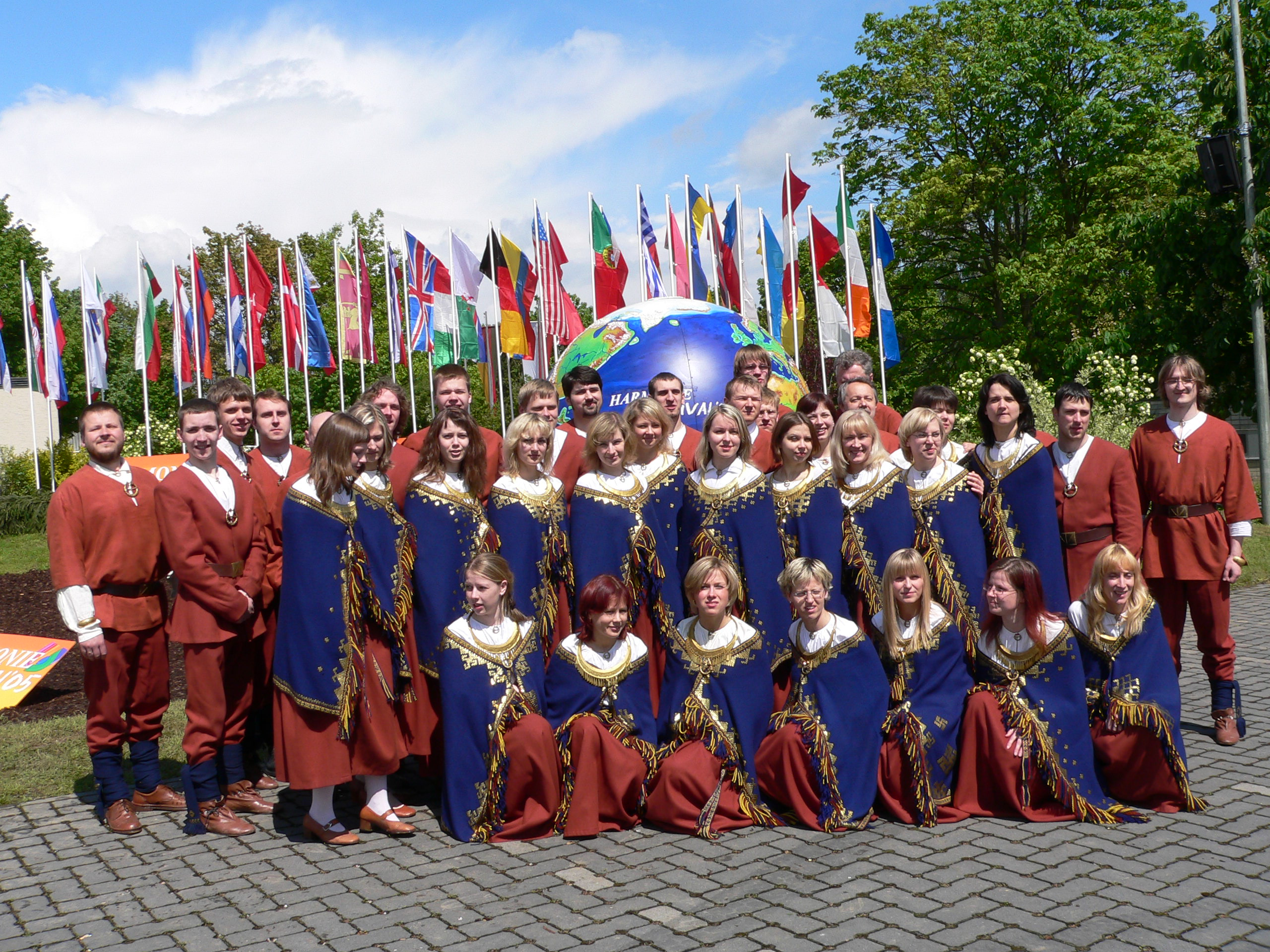 Youth Choir Juventus in 2005, Germany, Ochtendung